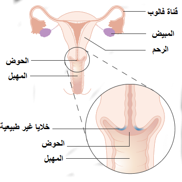 Diagram showing the transformation zone on the cervix.